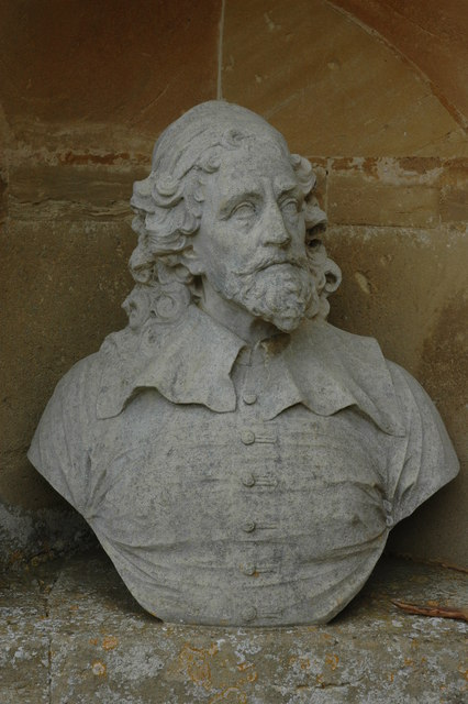 Inigo Jones, Temple of British Worthies, Stowe